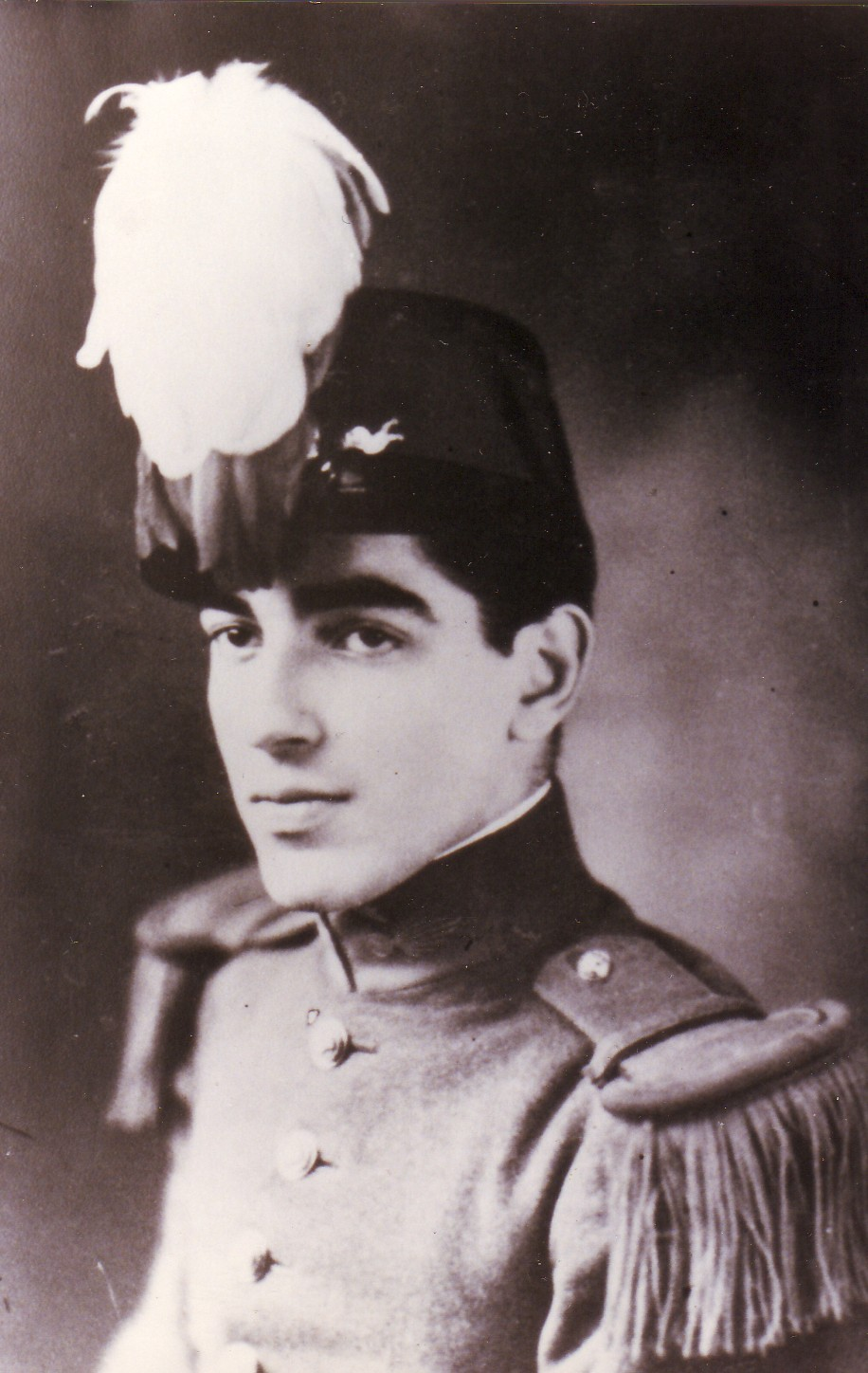 Teymourtash